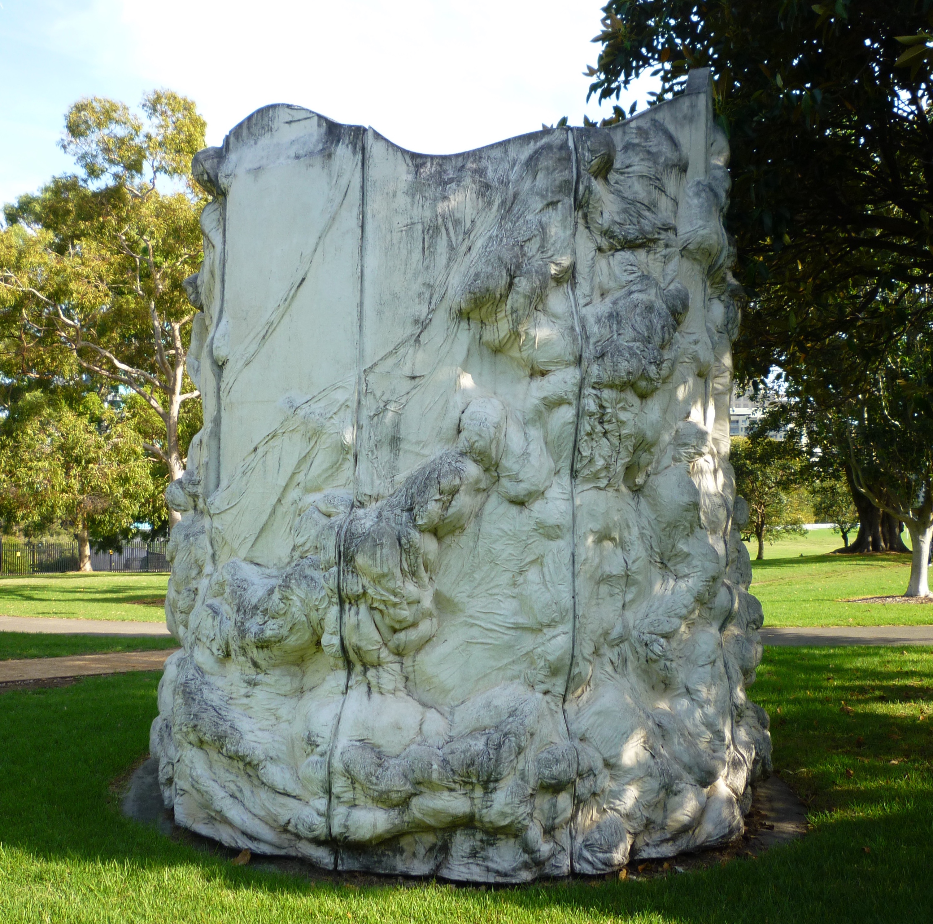 Sculpture in The Domain, Sydney